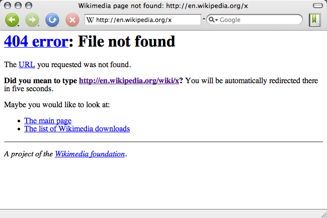 Screen capture of a 404 message error on Wikipedia